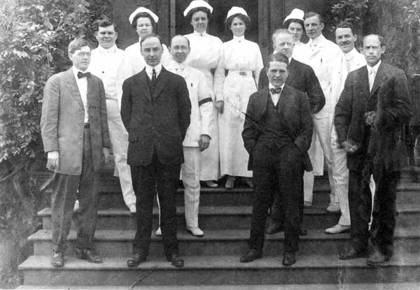 In 1912, Howard E. Bishop (front row, far left) was selected to serve as Robert Packer Hospital superintendent. Pictured with hospital staff, from left to right, (first row) Dr. Silas Molyneux, Dr. Donald Guthrie, and X-ray operator and photographer A.T. Weaver; (second row) Dr. George W. Hawk, Dr. Rufus Reeves, Dr. Walter E. Lundblad, Dr. Phillip Schwartz, and Dr. C. N. Haines; (third row) nurses Margaret Ohlman, Cleo Hollopeter, Julia Coyle, and Belle Spencer.